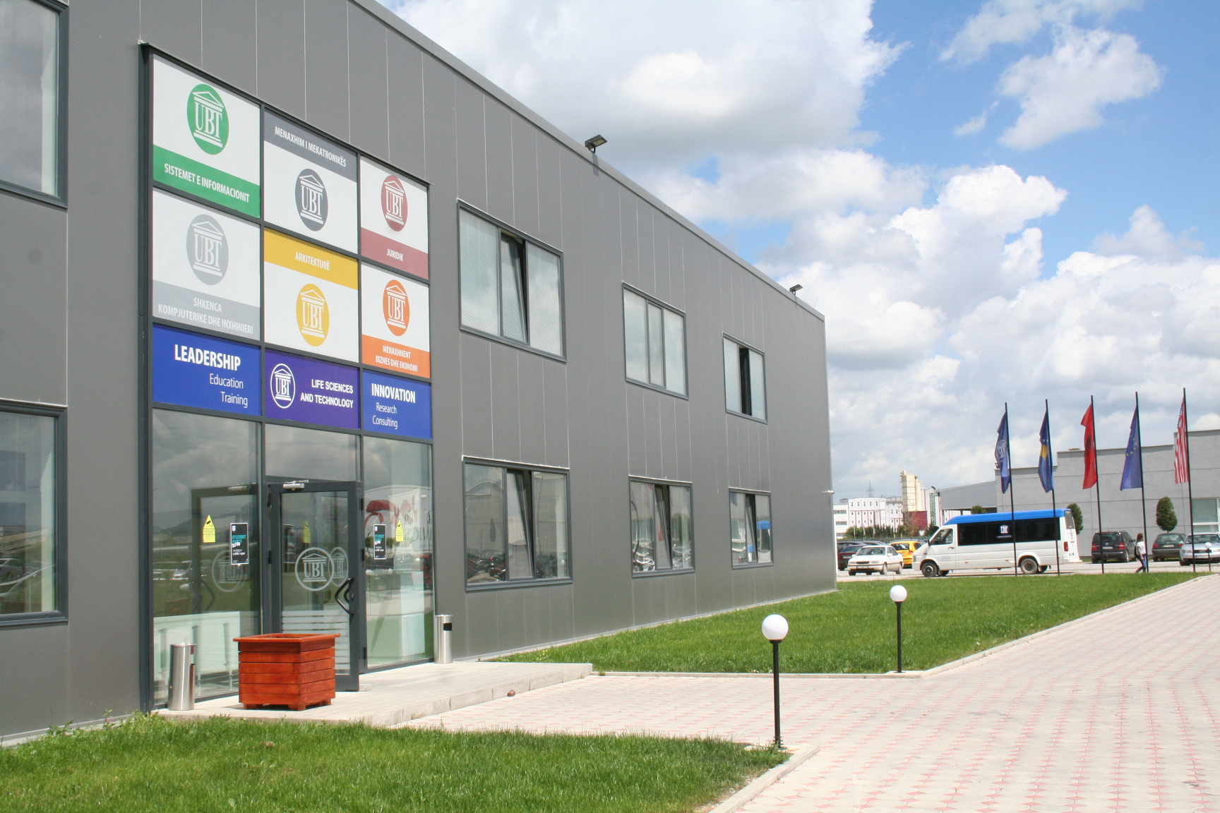 UBT second campus at Lipjan